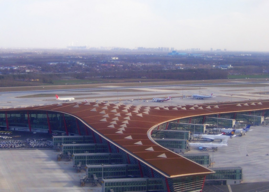 Beijing Capital International Airport Terminal 3-E Star Alliance